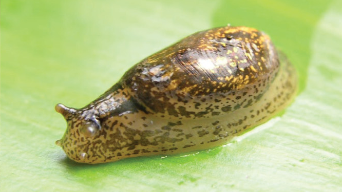 Photo of beige colored Omalonyx convexus (Heynemann, 1868) with a darkish-gray appearance.